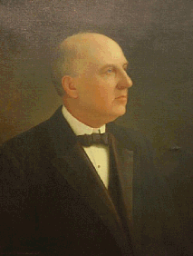 Ebe Walters Tunnell of Delaware (1844-1917); artist: Clawson S. Hammitt, 1914: Oil portrait; 29 1 /2" x 24 1 /4" Courtesy of Delaware Department of State, Division of Historical and Cultural Affairs. Collection of the Delaware State Museums. Hall of Governors Portrait Gallery.